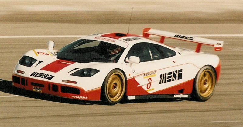 Photograph of the West Competition McLaren F1 GTR at Paul Ricard.